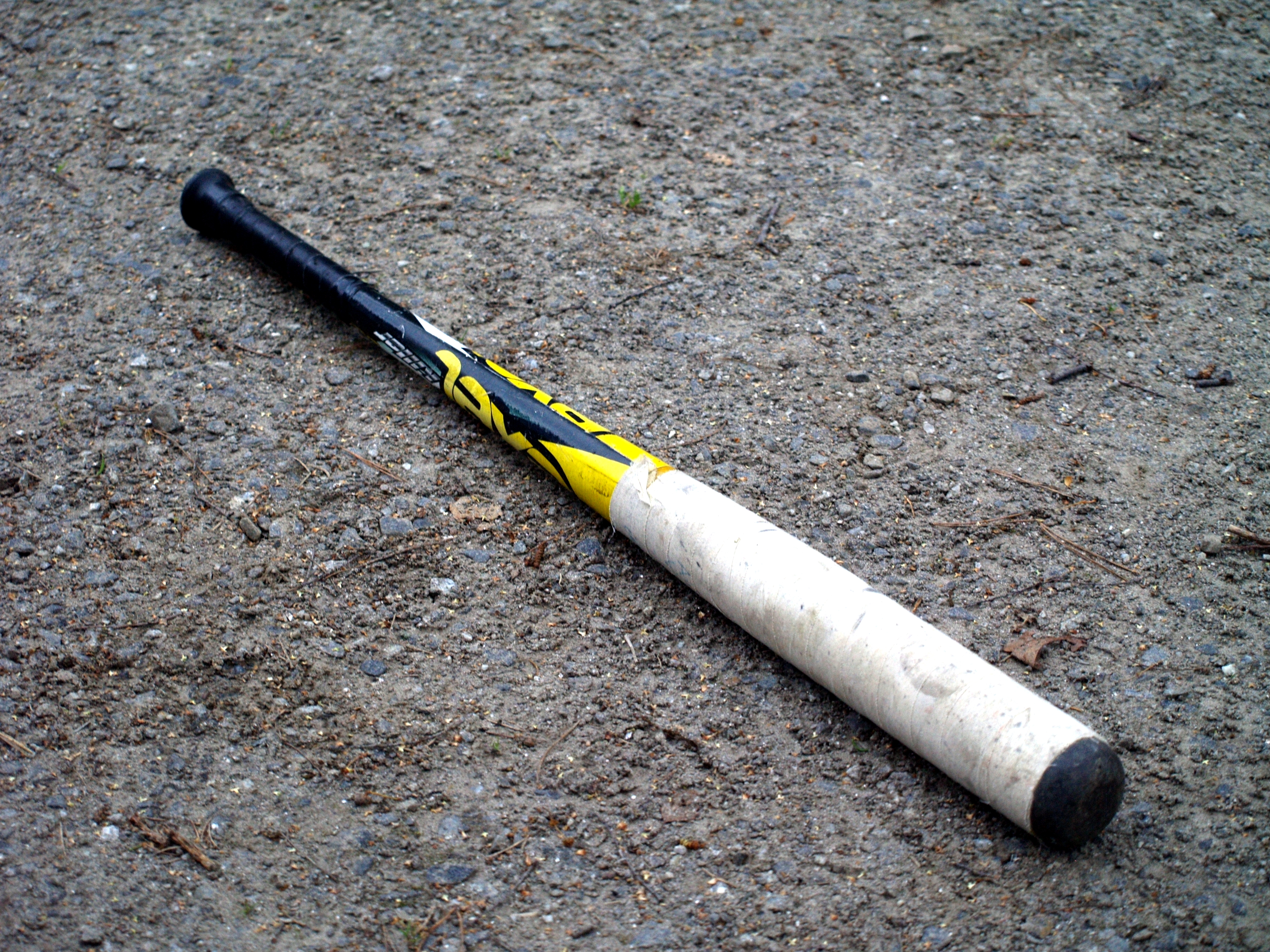 Pesäpallo bat